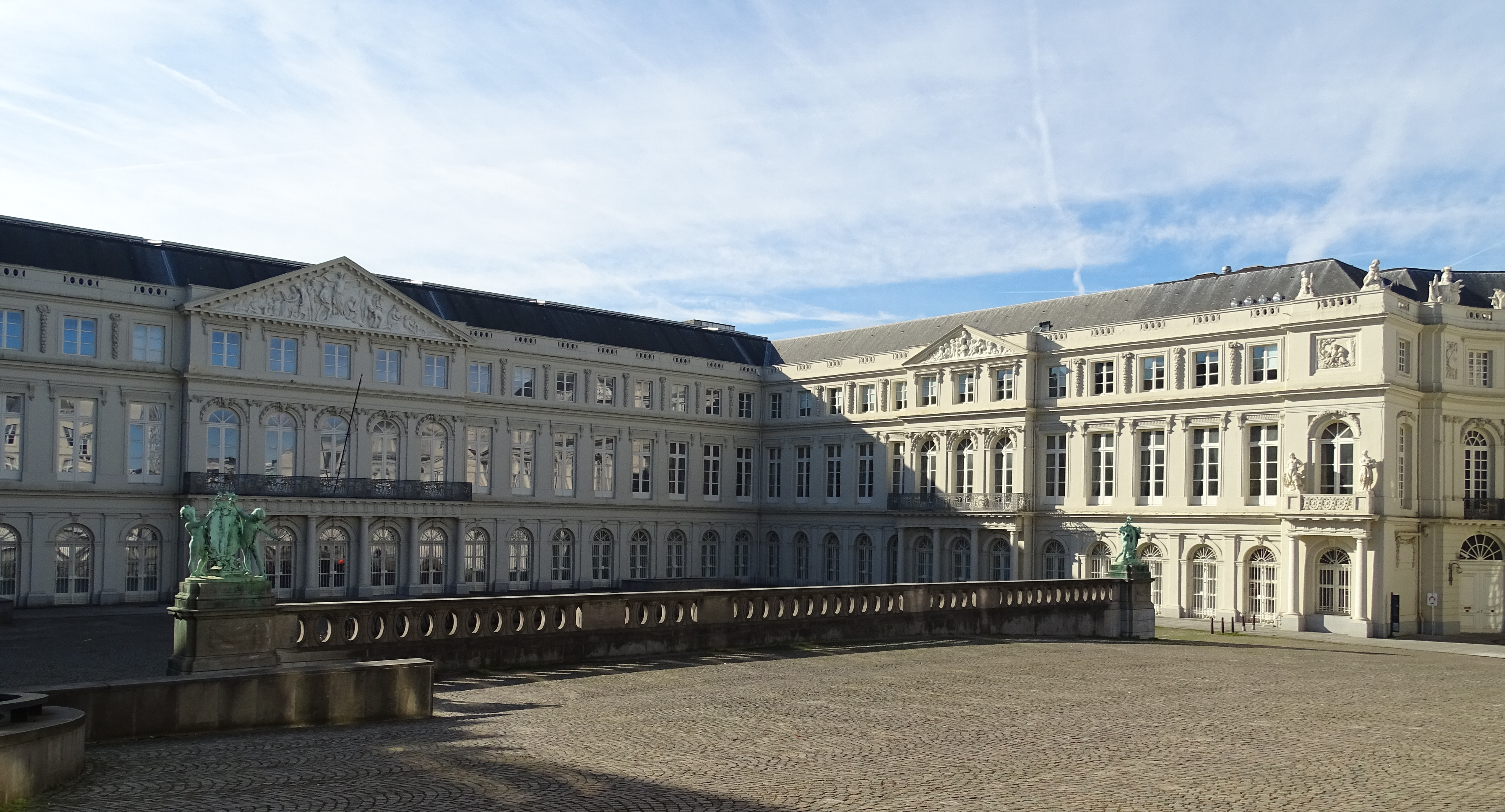 The Palace of Charles of Lorraine was the residence of Charles Alexander of Lorraine in Brussels.